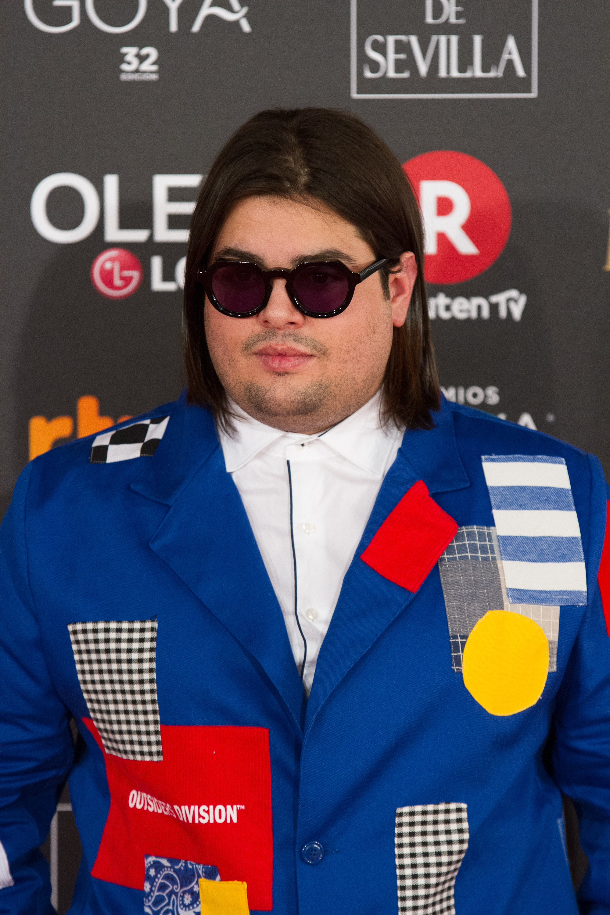 32nd Goya Awards, 2018.